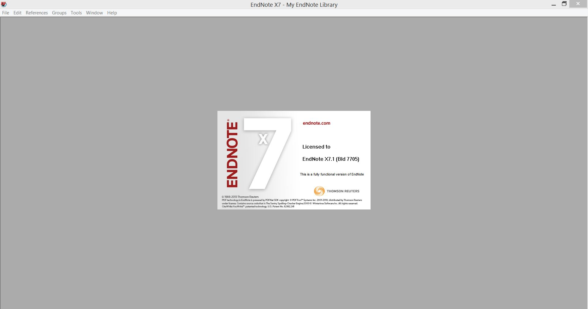 Endnote X7.1 running on Windows 8.1